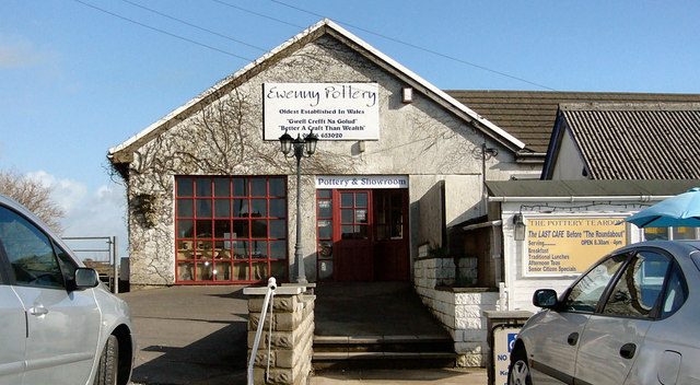 Ewenny Pottery Claims to be the oldest Pottery in Wales